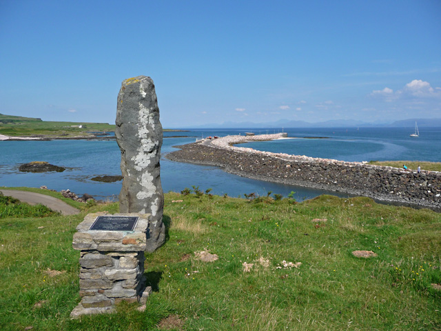 Eigg memorial stone. The 60 million year old lava pillar commemorates the island's historic buy-out in 1997 by the islanders and their partners in the Isle of Eigg Heritage Trust. In the background is the new pier where the CalMac ferry calls.